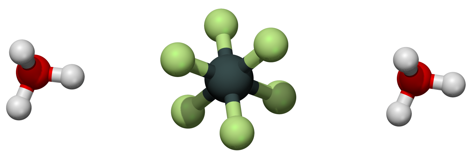 Molecular model of hexafluorosilicic acid. Each proton (H⁺) has been represented bonded to a water molecule, as an oxonium ion.